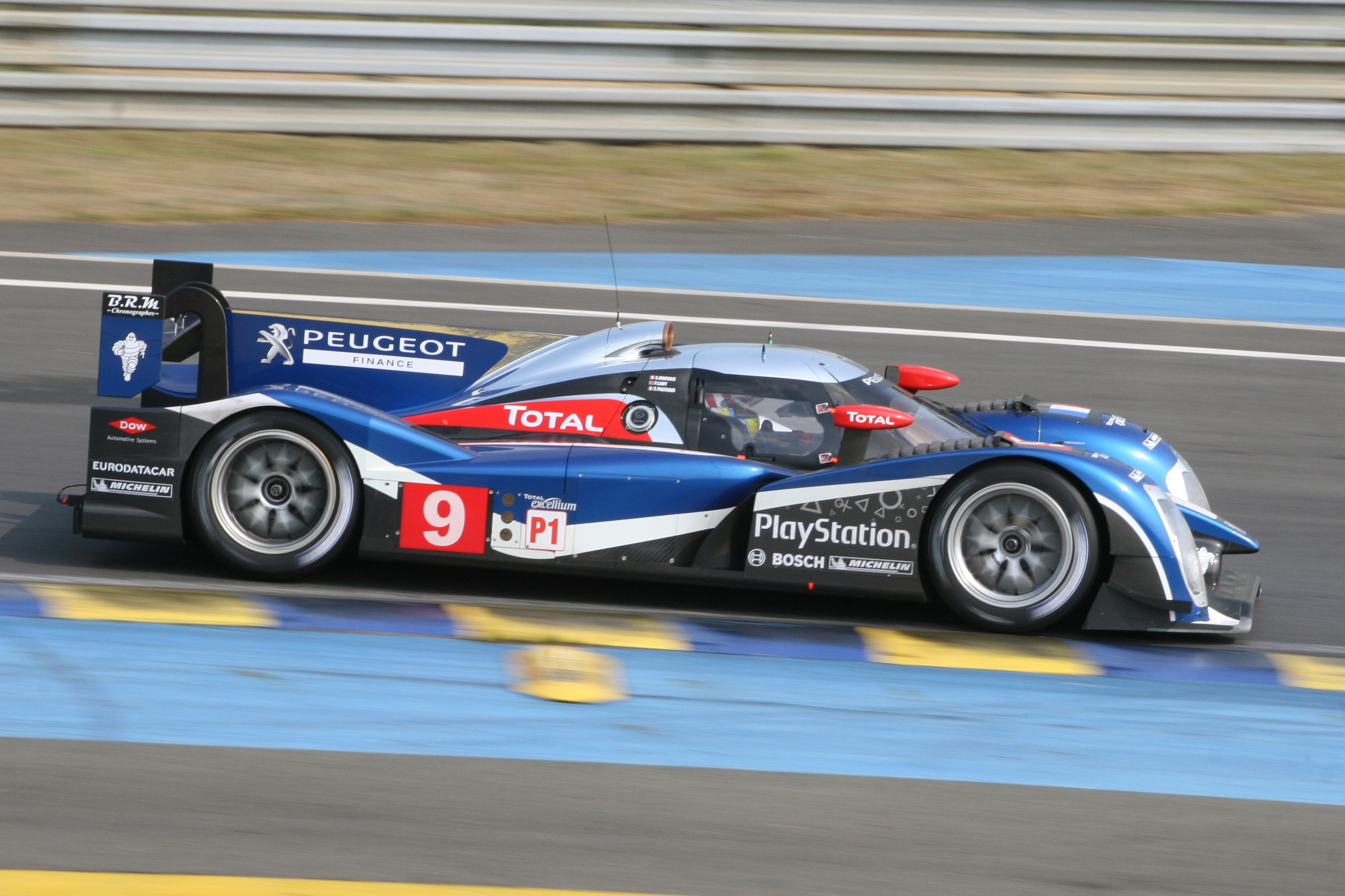 Peugeot 908 driven by Alexander Wurz at the Le Mans Pretest 2011